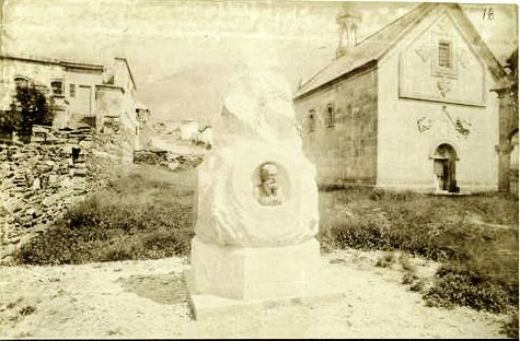 Georgian Military Road; Monument to poet A. Kazbegi and House and church at Qazbegi's yard.